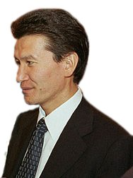 Kirsan Ilyumzhinov, a Russian businessman and politician.